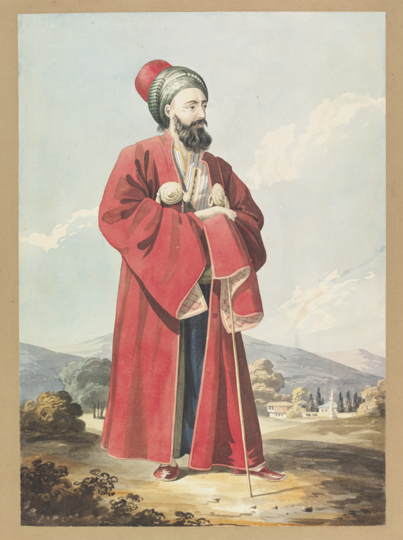 It is possible that the figure represents a Jew or an Armenian. The costume studies SD.720-SD740 seem to divide into two categories; those which are apparently copied from other sources (SD.728,731,733 & 734), and those which are based on on-the-spot observation (SD.720-727, 729, 730, 732, 735-740). Possibly the copies, which seem less developed stylistically, were done before Page visited the Near East. For discussions of the dating and origins of the studies, see J.H. Money, pp.13, 22 and 30; also C.W.J. Eliot, pp.424-5. For details of another set of costume figure studies by Page, some identical to these, see Searight Archive. See also C. de Brockdorff and O. Dalvimart for comparable studies. It has also been suggested (Searight Archive) that Page may well have been influenced by L. Dupré, whom he could have met in Greece or Constantinople, in 1819-20. The two artists are very close in style and format. See L. Dupré, Voyage A Athènes Et A Constantinople, Paris, 1825, in which many images bear comparison with Page. Only one of Page's costume figure studies (SD.732), seems to have been published (see SP.443A). The artist appears to have worked in two distinct styles: the first during the 1810s and early/mid 1820s, represented here by the costume studies and The Fountain of Babhoumayoun (SD.720-741); the second during the late 1820s and 1830s, represented here by the picturesque landscapes (SD.742-756). Another group of landscapes from the second period, some signed W. Page are in the BM, PD.